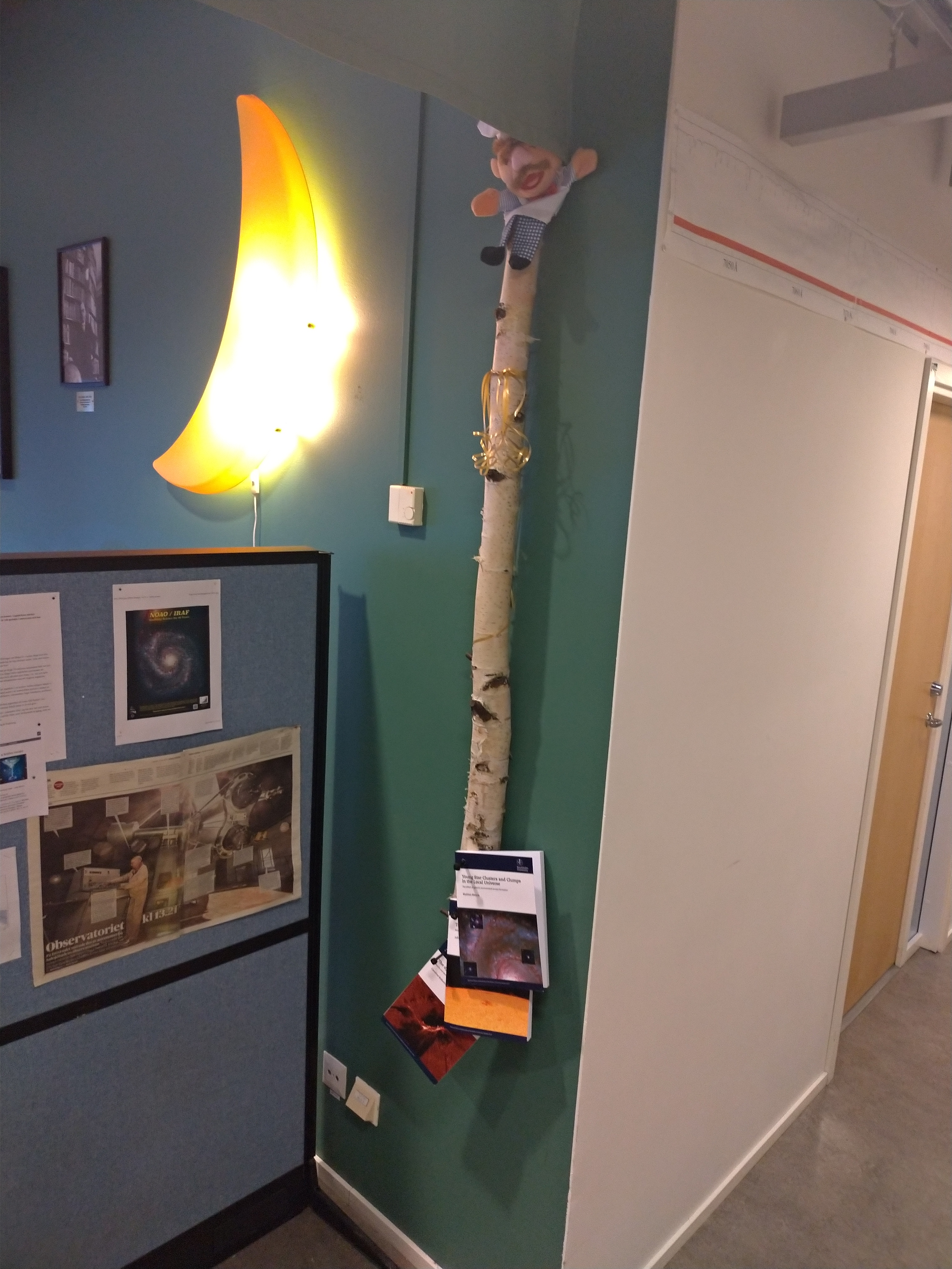 spikning tree